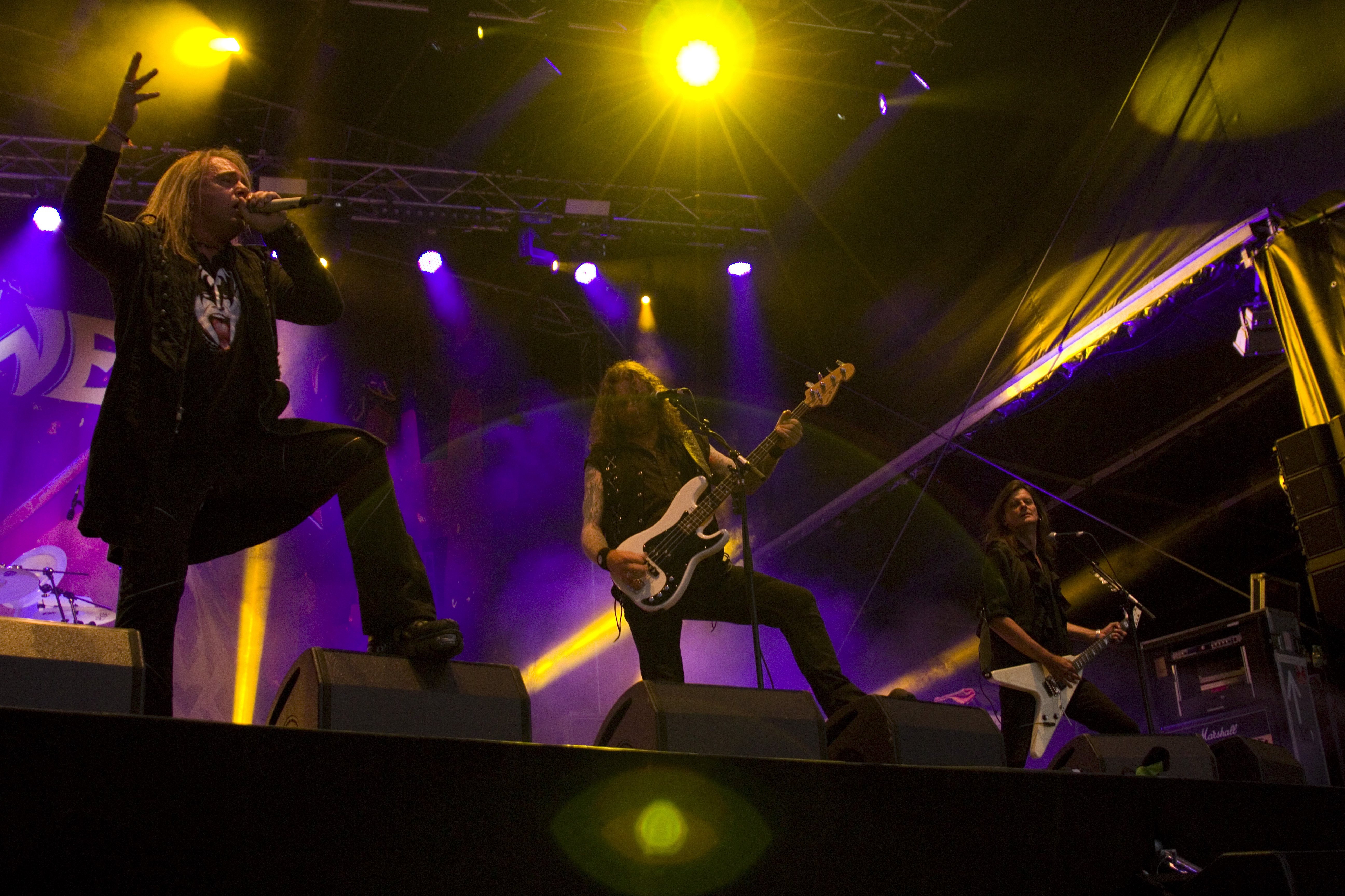 The German power and speed metal band Helloween at the Rockharz Open Air 2014 in Ballenstedt/Germany